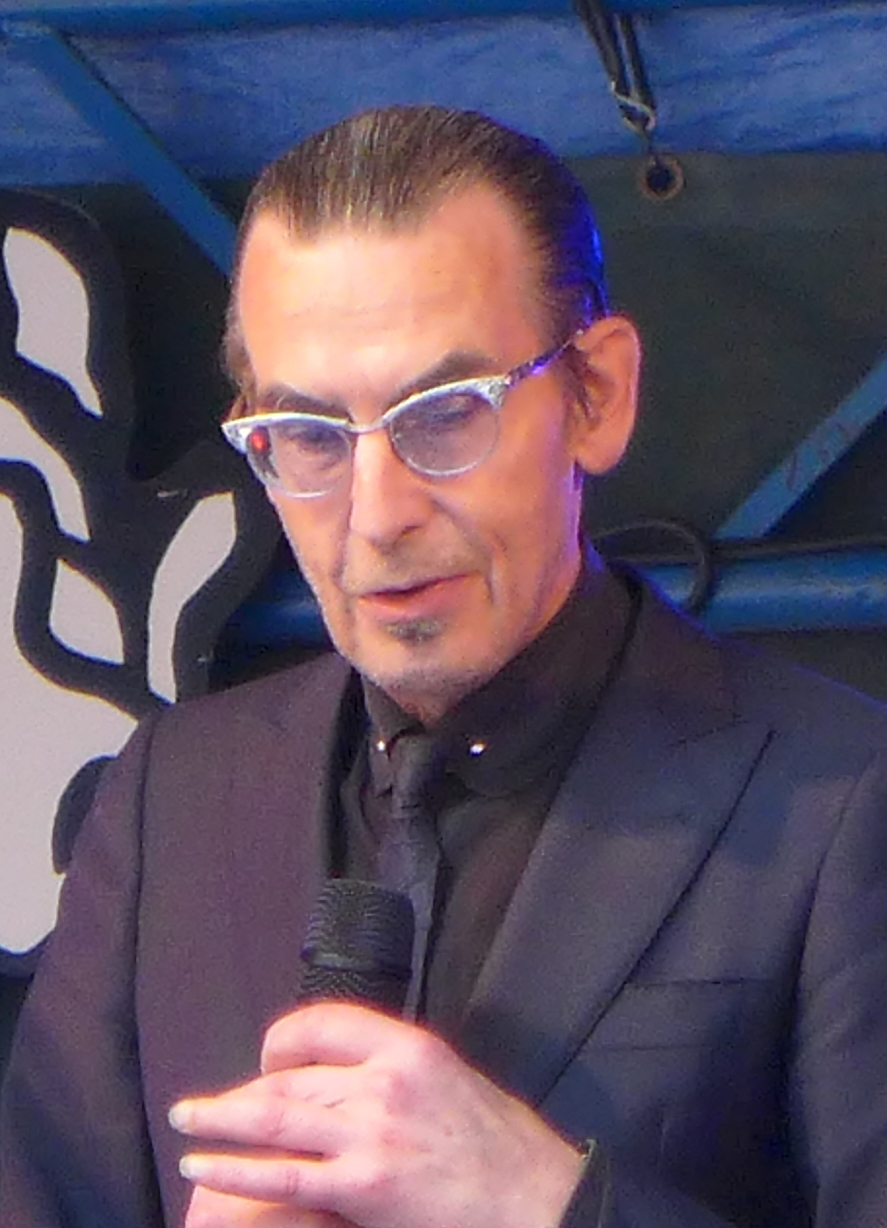 Jules Deelder is singing the song 'Rotterdamse vrouw' (lyrics and music by Joop Visser) together with Jessica van Noord and Joop Visser at the poetry festival 'Het Tuinfeest', Deventer, August 3 2013